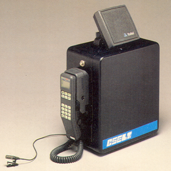 This is the picture of the mobile phone prototype with speaker independent speech recogniser - ARS project - created by the Turin CSELT speech group (Loquendo from 2001) in the '90.